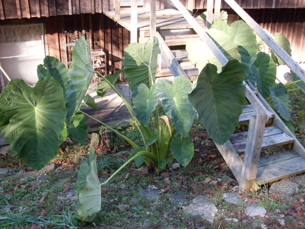 Elephant ear, Colocasia, with blossom in my back yard